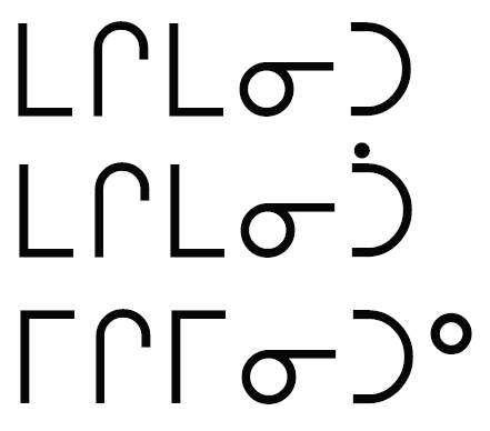 Matche Manitou in Cree syllabic: Macemanito (Cree New Testament 1876) Macemanitô (Cree Bible 1862) Michiminitu (Naskapi New Testament 2007)